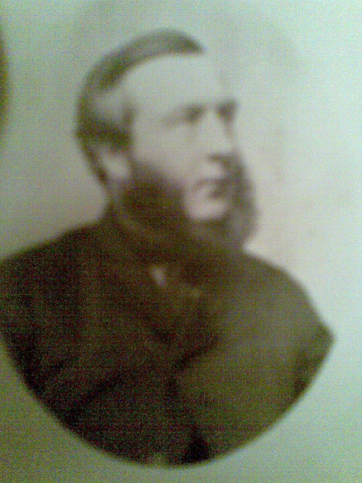 Picture from old photograph of Edmund Backhouse (MP)